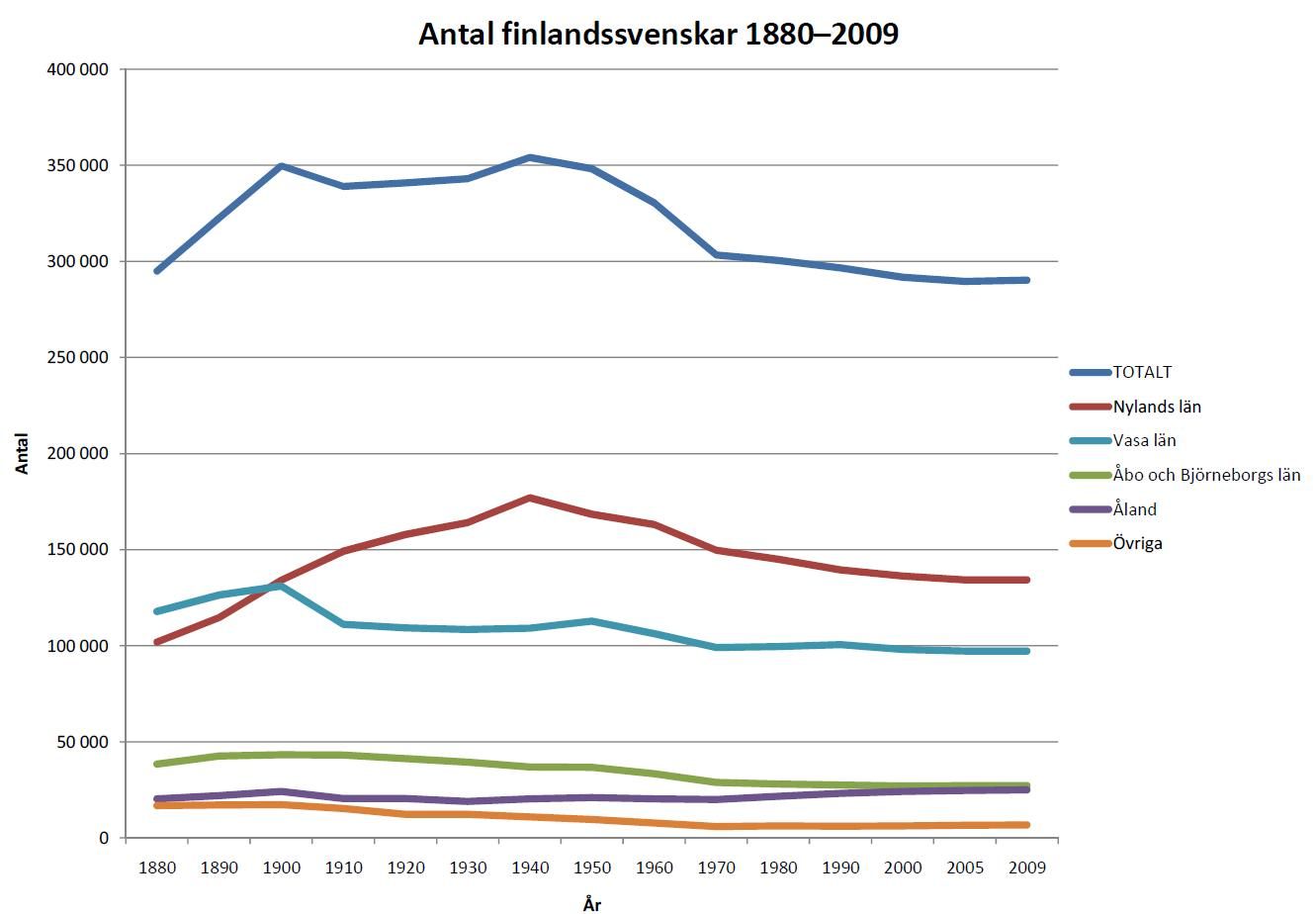 The number of Swedish speakers in Finland 1880-2009 per province (lääni/län). The "old" provinces are shown, although province division changed over time.